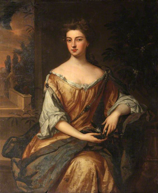 124.5 x 101.5 cm oil-on-canvas. Chirk Castle